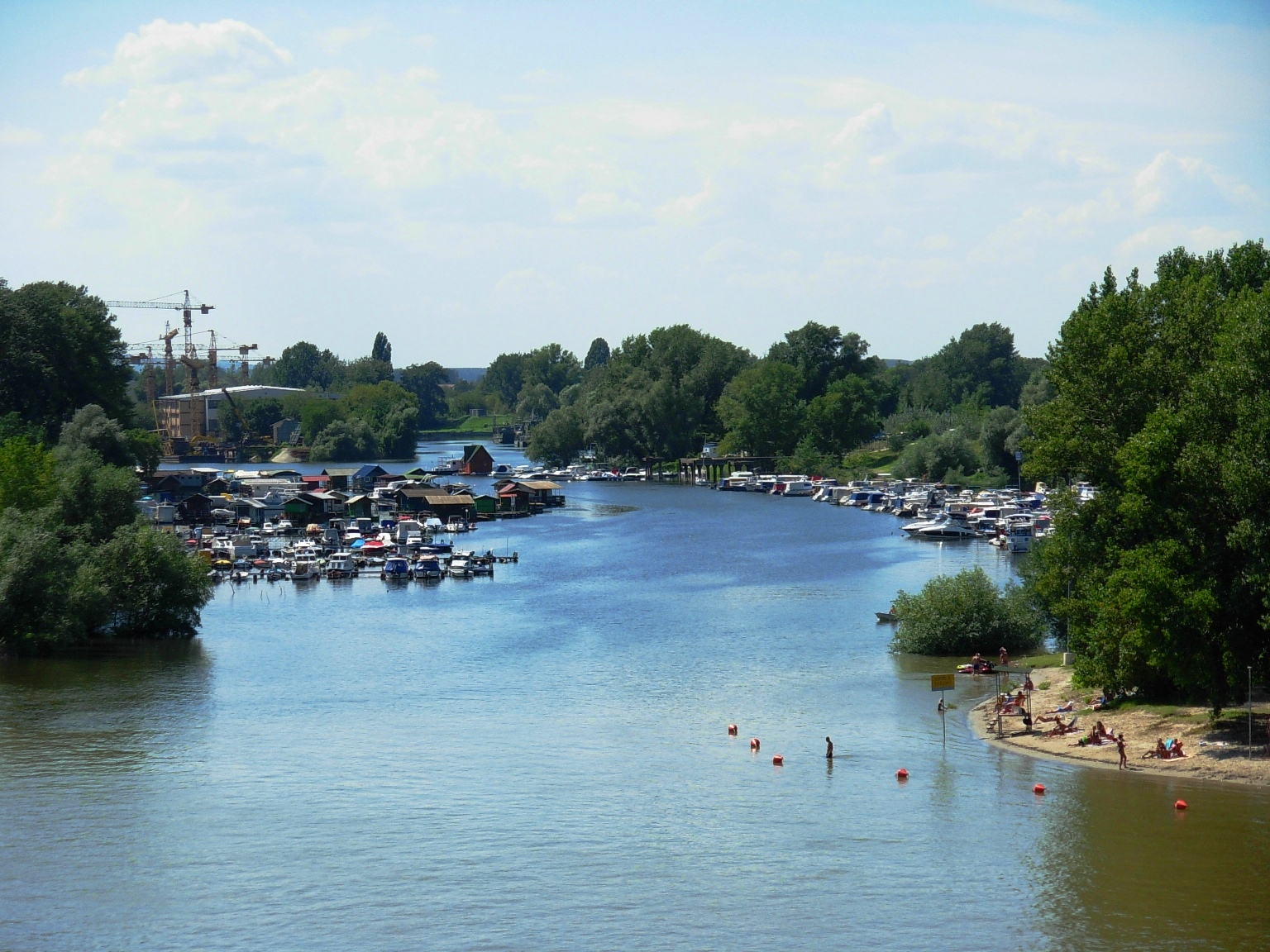 Rukavac Ribarskog ostrva, Novi Sad.